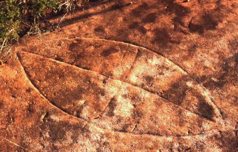 Aboriginal site, Engravings Track, Garigal National Park, Sydney (Kodachrome slide scanned at low res, originally taken c.1985)